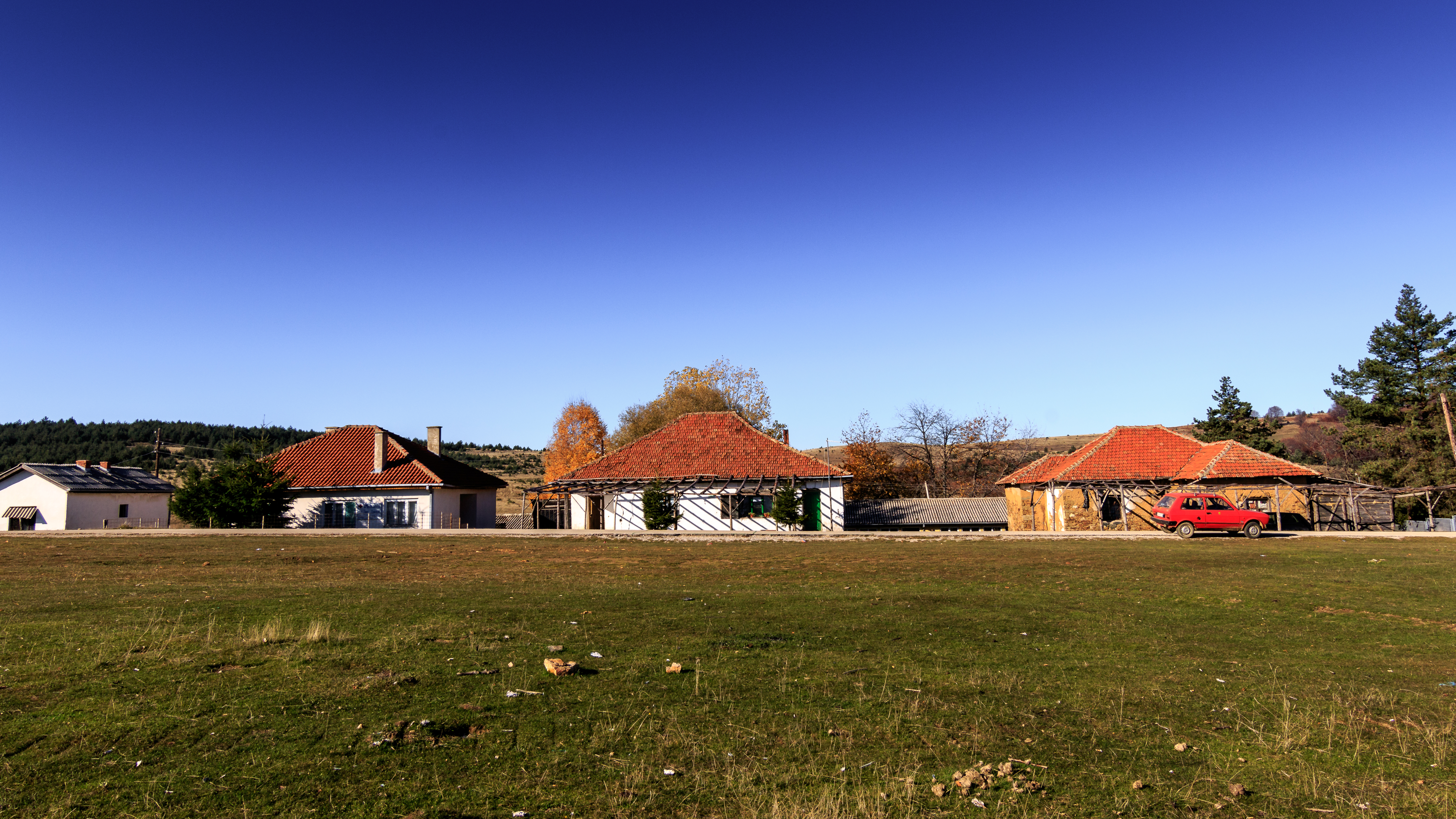 View of the local institutions in the village German